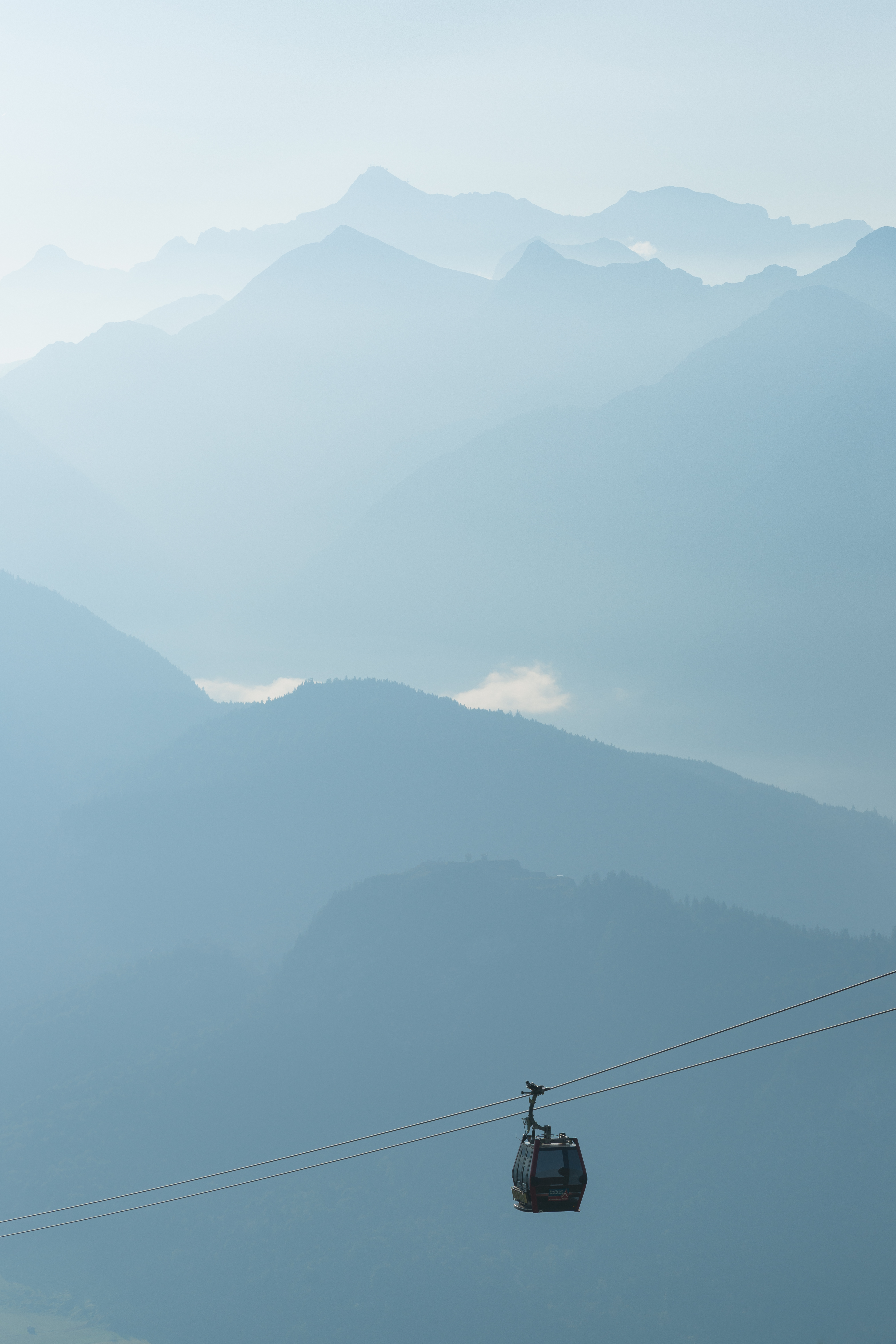 Gondola of the funicular up to the Hahnenkamm near Reutte/Tyrol, Austria. In the background: Zugspitze (2962m)